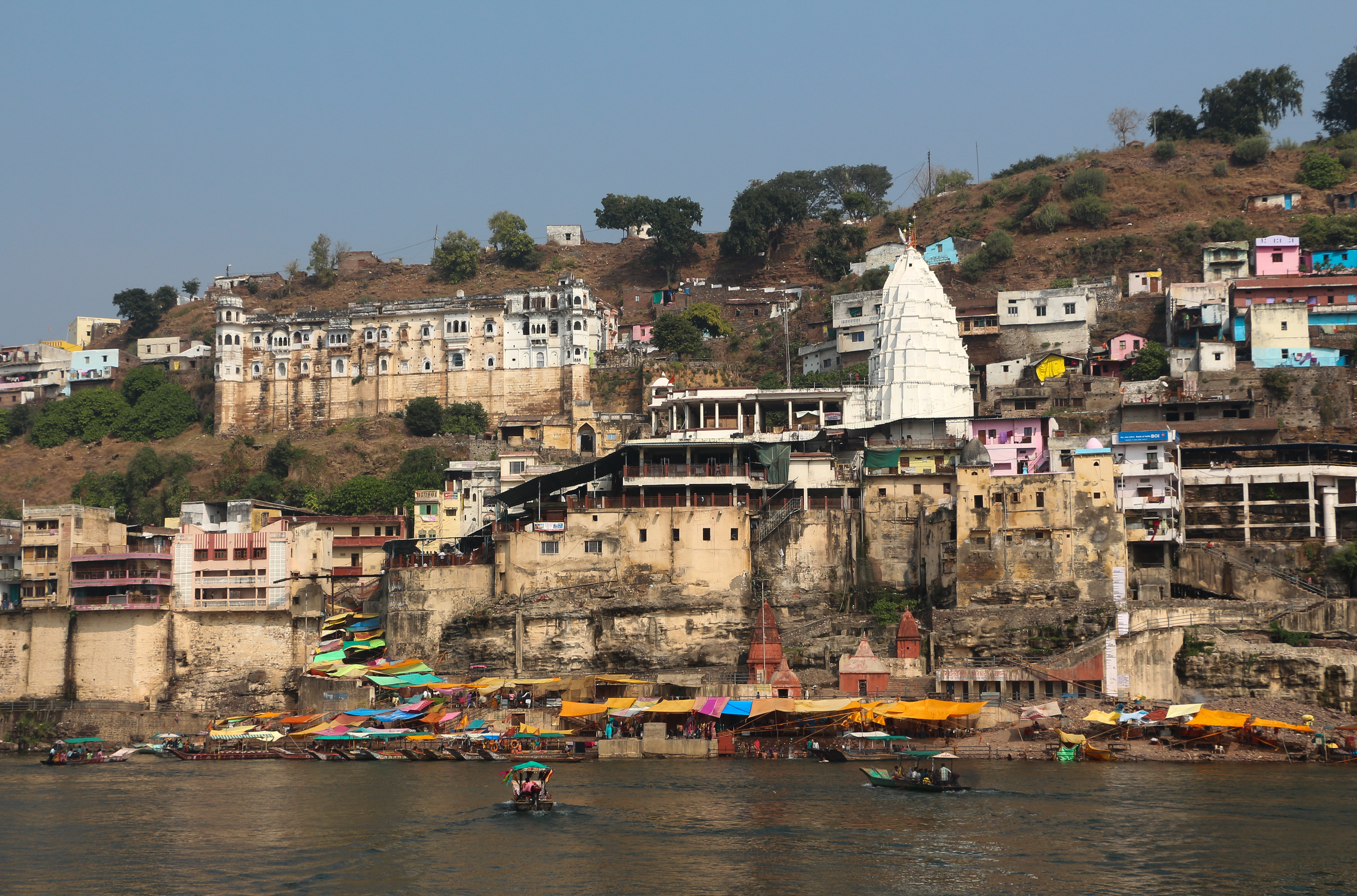 Omkareshwar Mahadev Temple, Omkareshwar, India